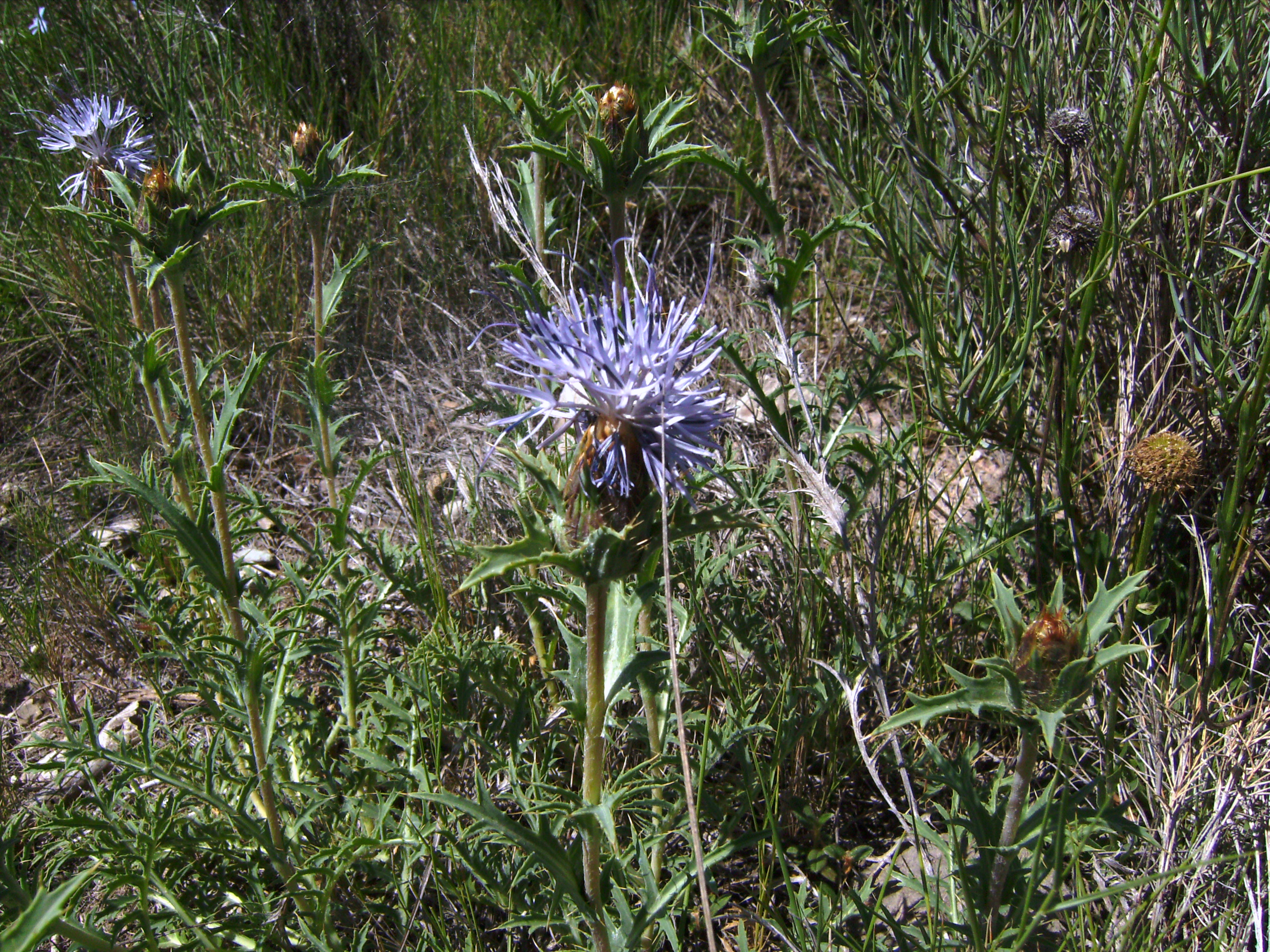 Carduncellus monspelliensum in the wild, Castellallat, Catalonia